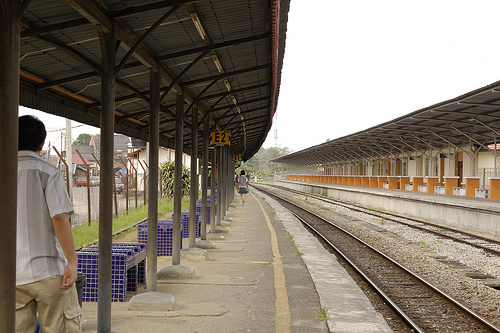 View of Stesen Keretapi Wakaf Bharu